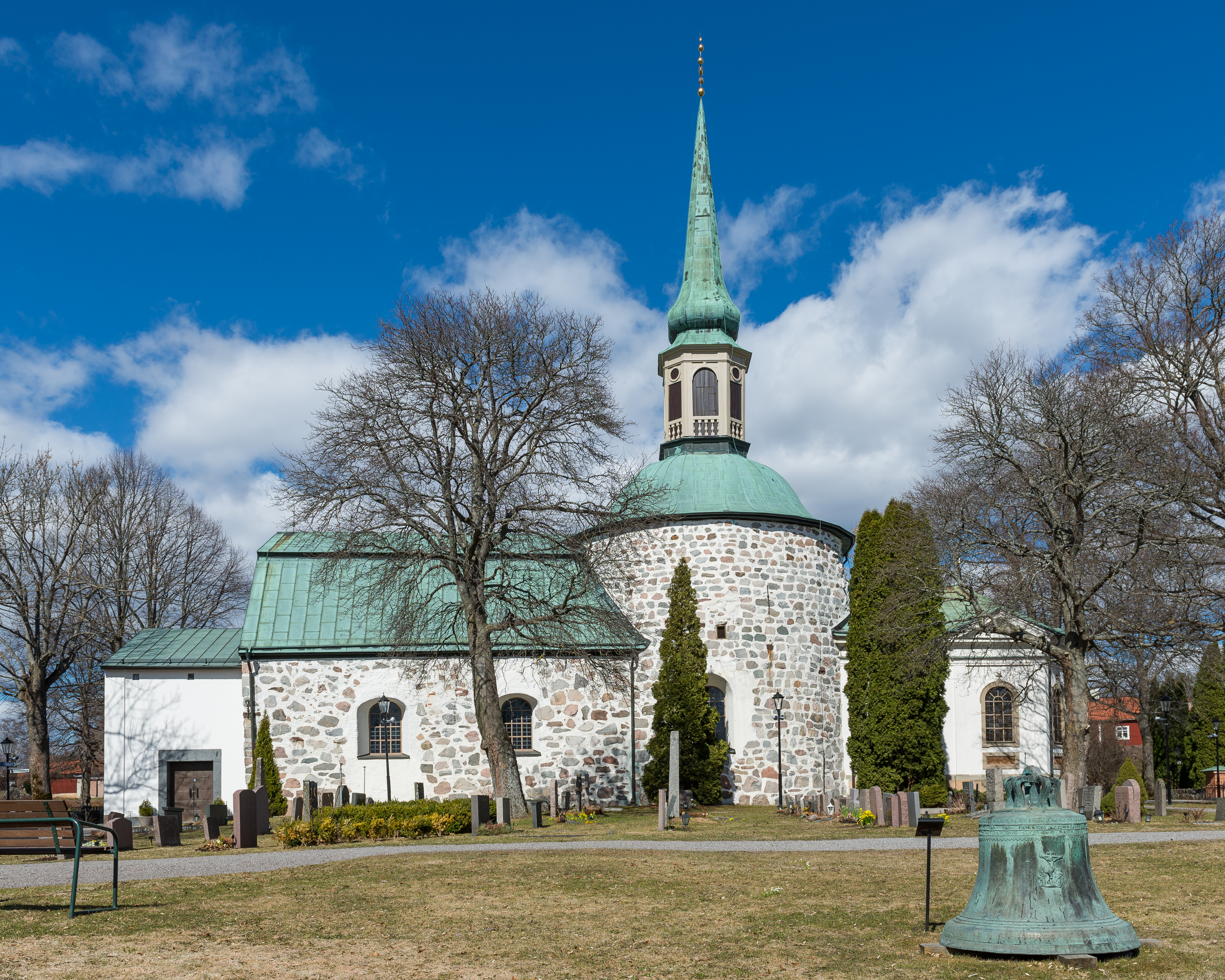 Bromma kyrka (church). The oldest parts of the church were built in the later 12th century as a fortress church, and the church is among Stockholm's oldest buildings. Bromma Parish, Diocese of Stockholm, Church of Sweden.